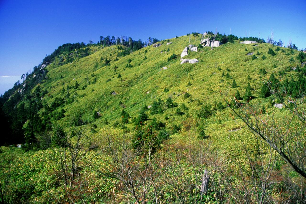 Nagisodake_2001-10-31